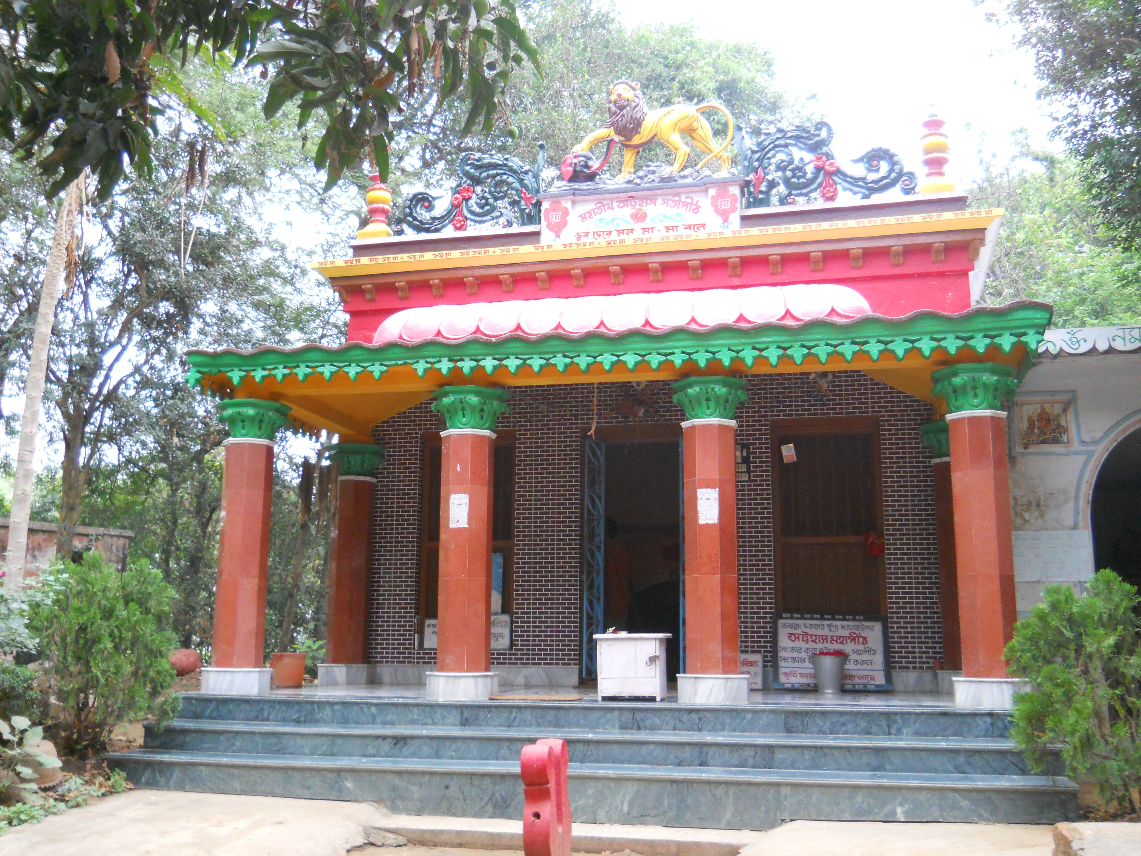 Attohas Temple, Burdwan, West Bengal